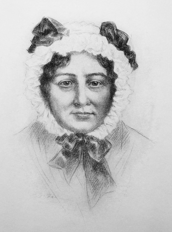 Portrait of Mary Lamb (1764-1847)